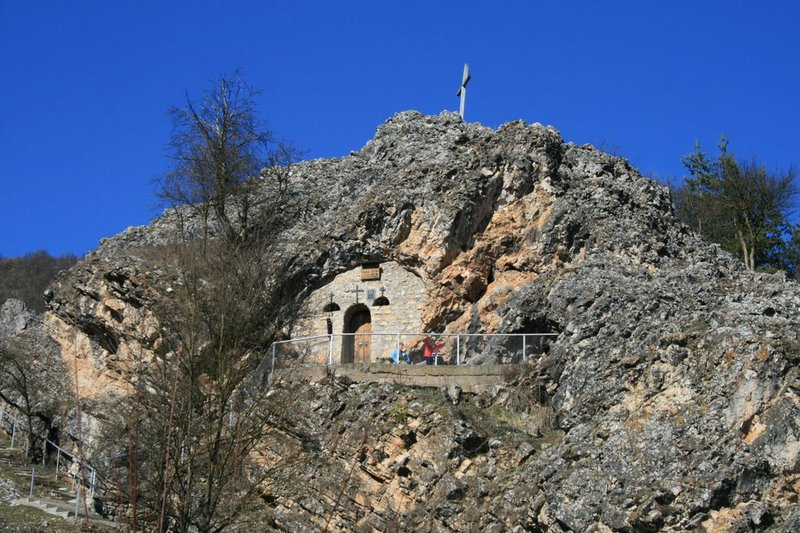 Medieval cave chapel "Saint Petka" in quarter Barintsi, in town Tran, Bulgaria